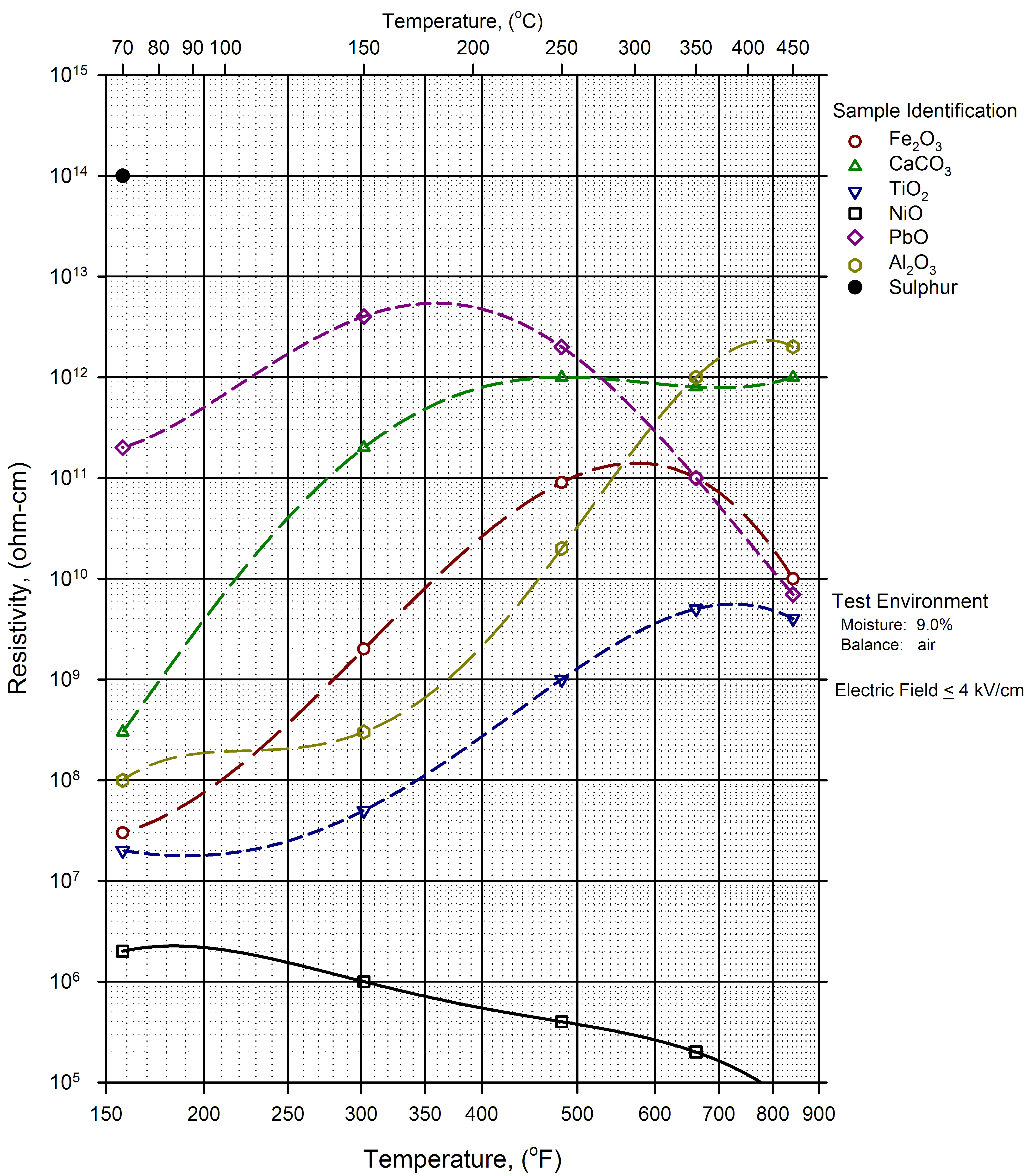 Resistivity as a function of temperature for various chemically prepared powders.